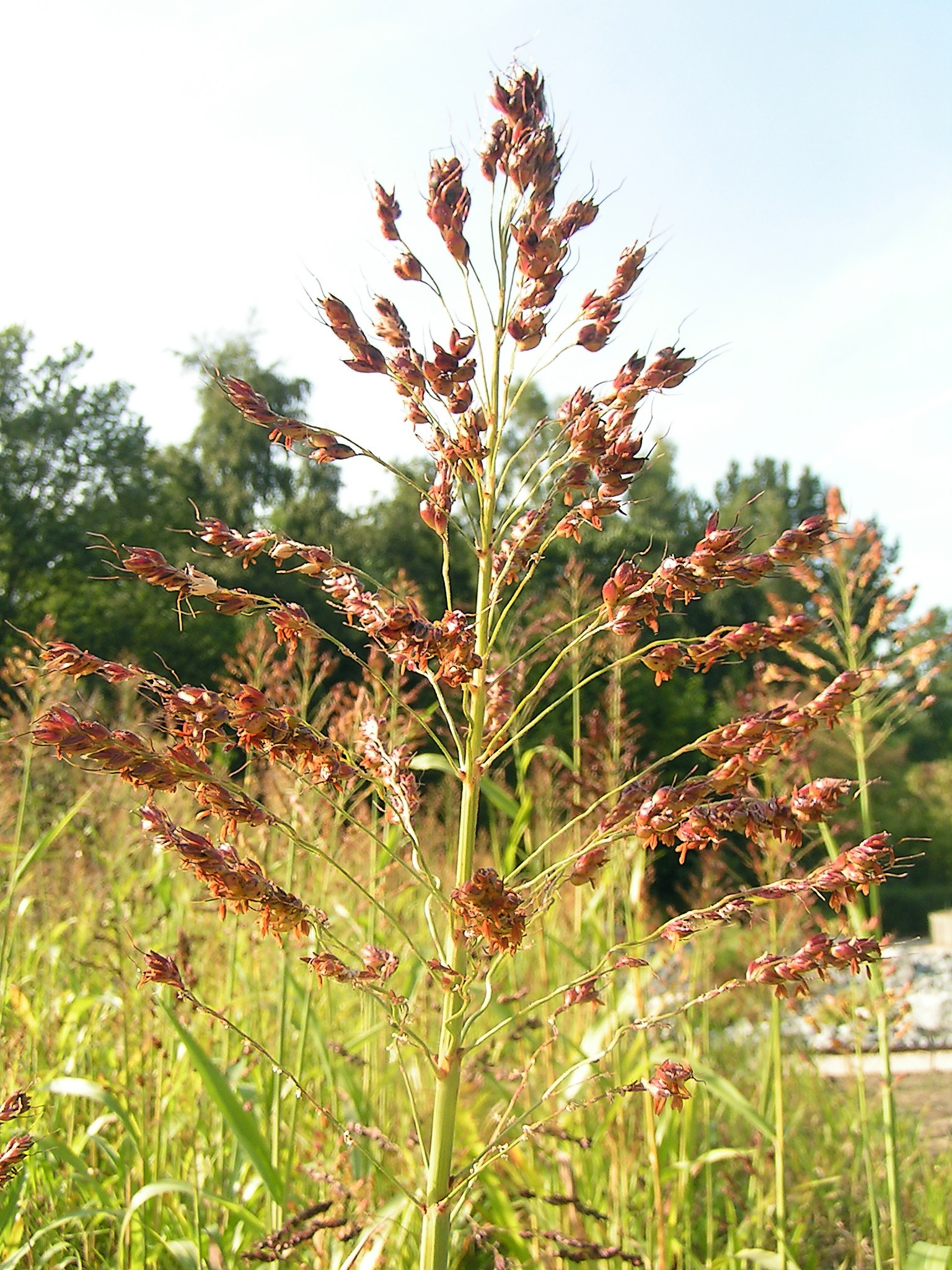 Sorghum durra 2005, sep 4 by pethan Botanical Gardens Utrecht University